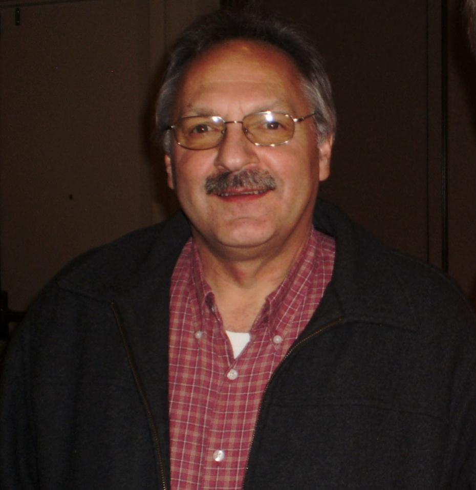 David M. "Dave" Talerico (born 1956) is an American politician in the state of Alaska. A longtime resident of Healy, Alaska, Talerico is currently a Republican member of the Alaska House of Representatives, representing a physically immense, mostly rural stretch of Interior Alaska. He's the longest-serving mayor of the Denali Borough, was serving in that office and was the Republican nominee for another Alaska House seat at the time of this photo, likely taken at the Westmark Fairbanks Hotel on November 2, 2010. Talerico was cropped out of larger original photo.